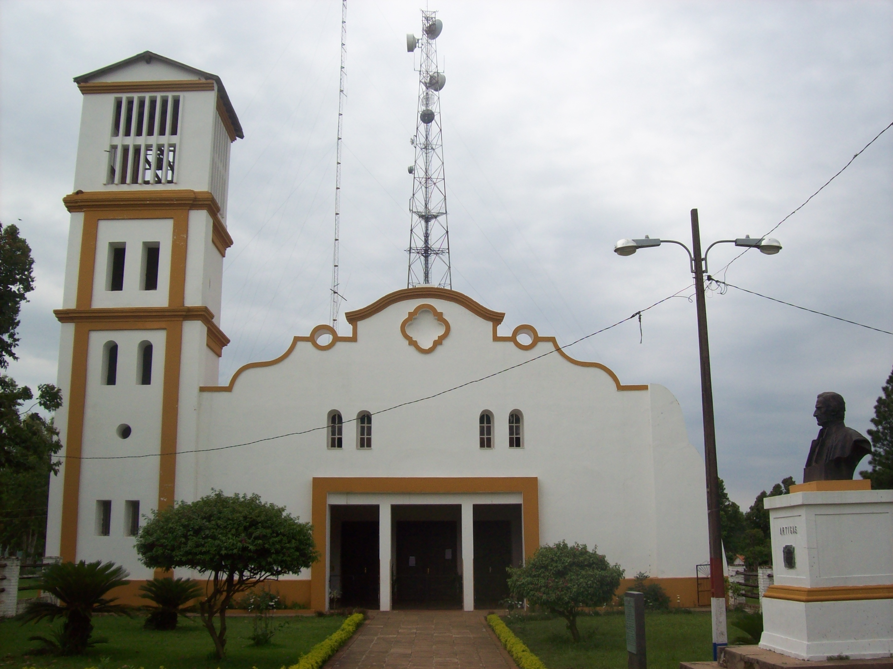 Iglesia Virgen del Rosario de Gral. Artigas